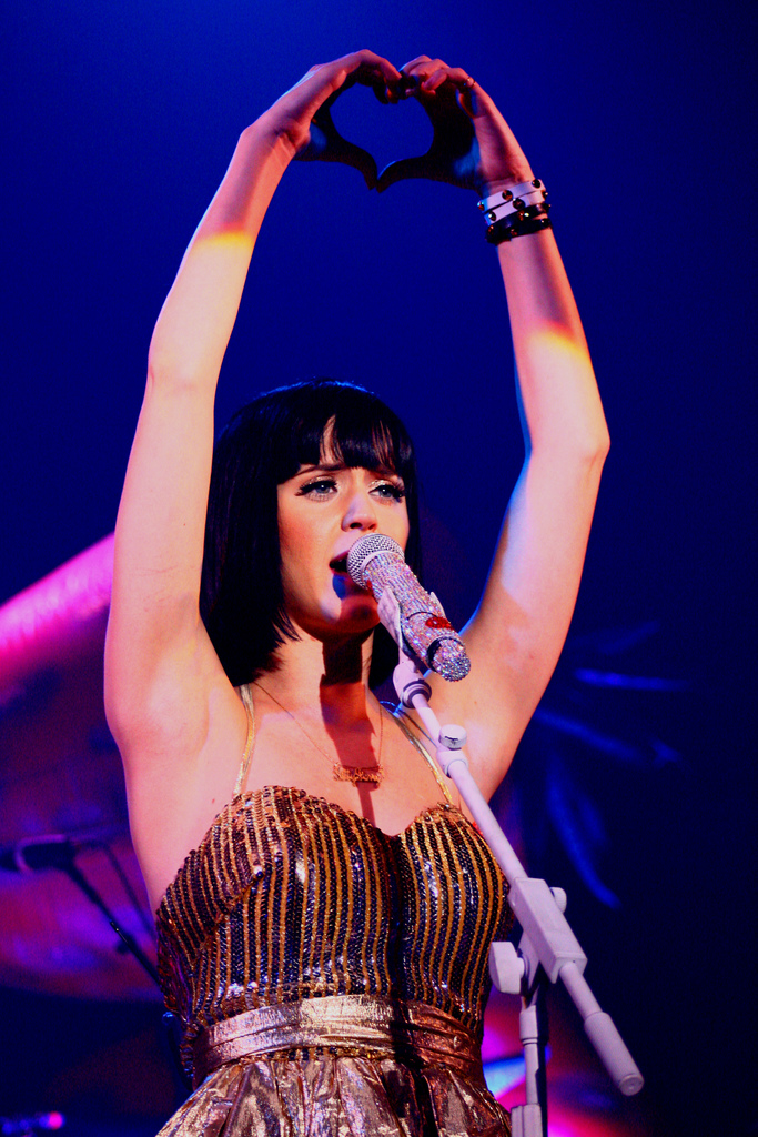 Katy Perry performing at Clutch Cargo's and Mill Street in Pontiac, Michigan on March 28, 2009